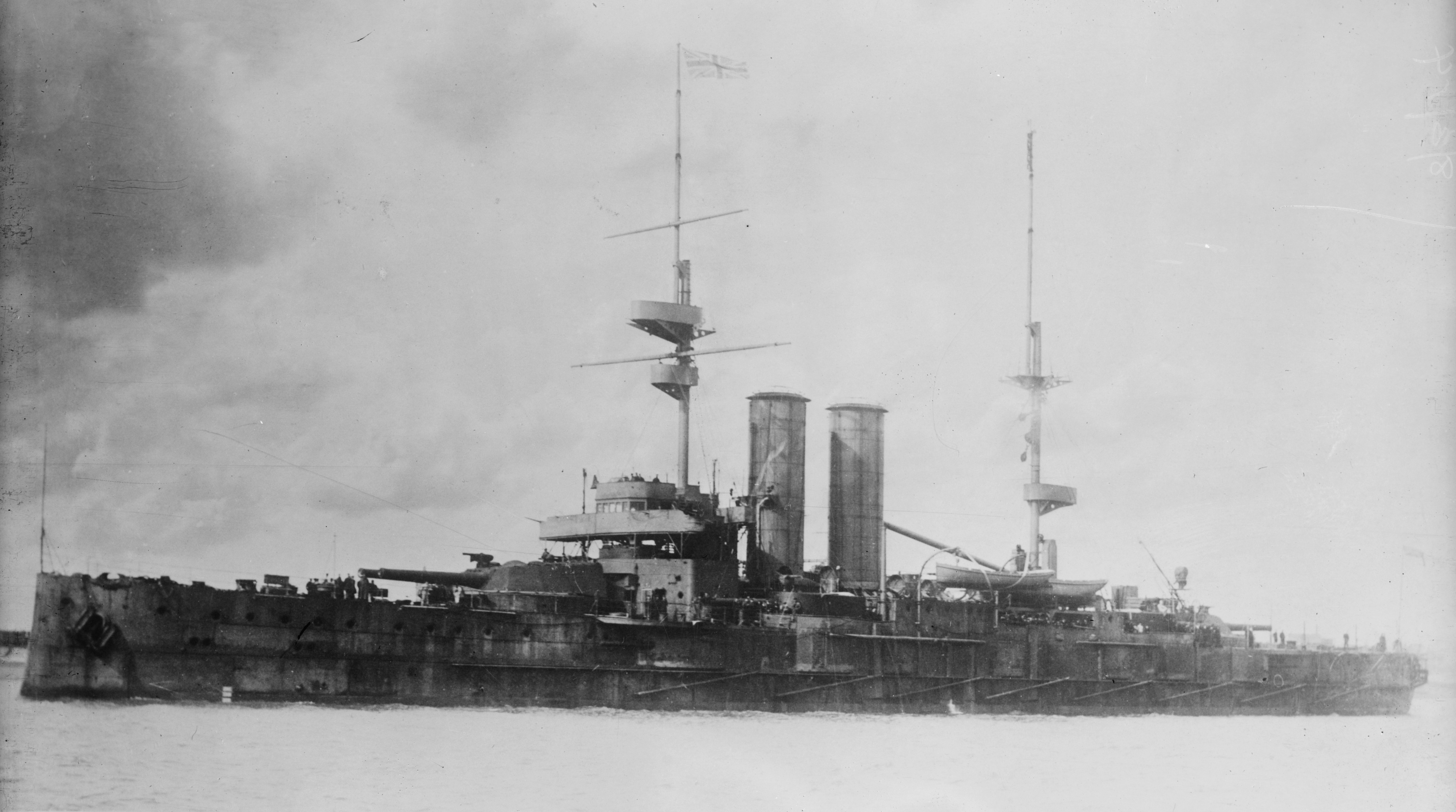 HMS New Zealand